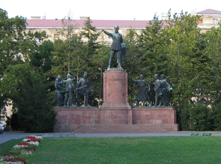 Memorial of Lajos Kossuth near the Parliament in Budapest, Hungary